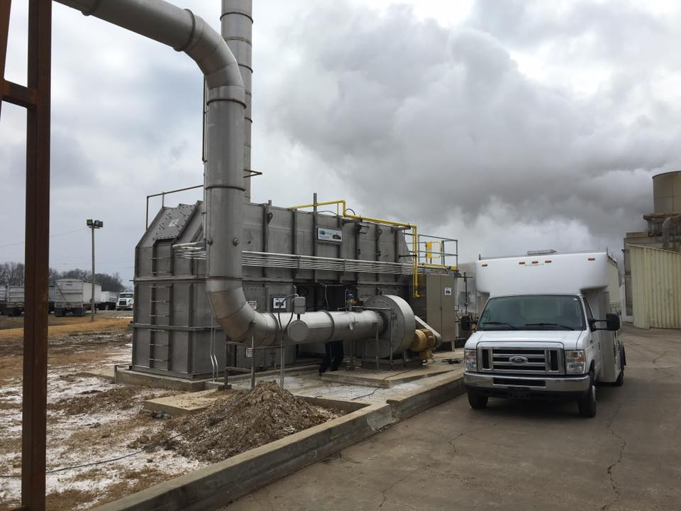 Thermal oxidizers purify industrial air flows.